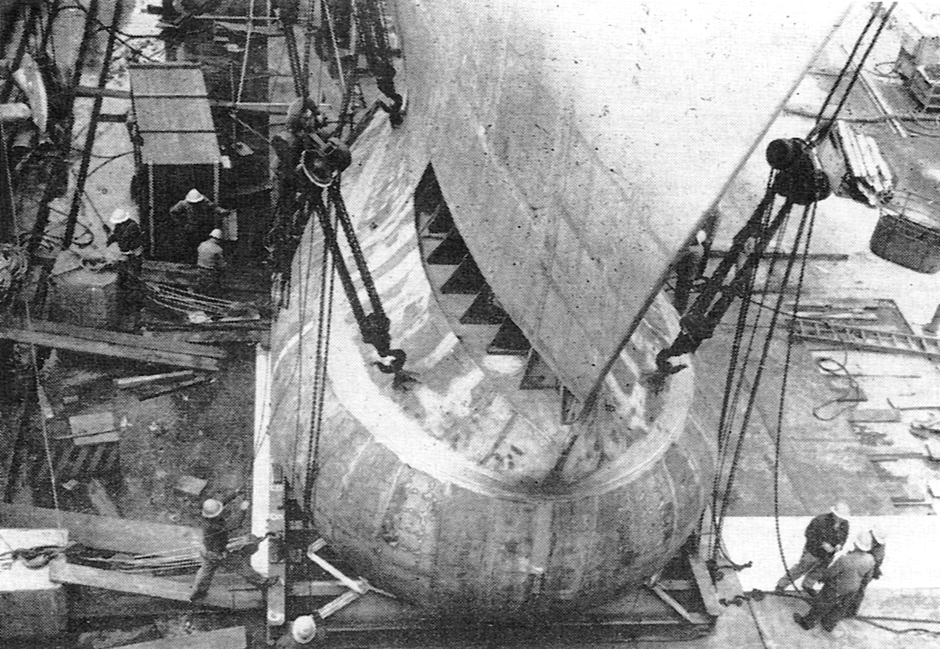 View of the bow of the U.S. Navy destroyer USS Willis A. Lee (DL-4) during her FRAM modernisation at the Boston Naval Shipyard, Massachusetts (USA), in 1961. Willis A. Lee and her sister ship USS Wilkinson (DL-5) were the first ships to receive the AN/SQS-26 sonar.